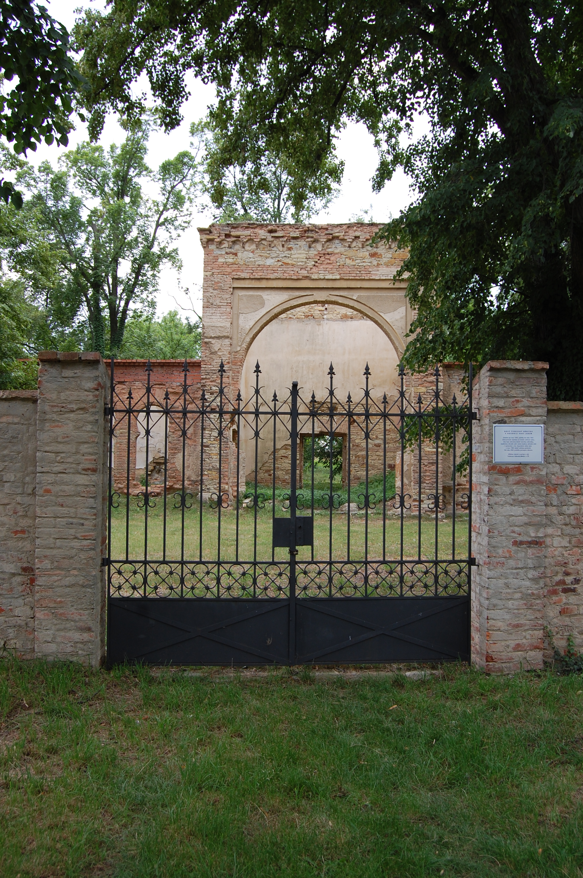 New Jewish cemetery in Roudnice nad Labem, Czech Republic